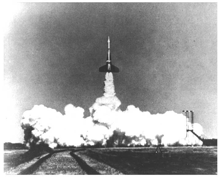 This images shows an early model of what would become the Nike Ajax, using the original design booster consisting of a cluster of eight JATO bottles. This booster proved unreliable and was replaced with a slightly upgraded version of the US Navy's design being used on the Project Bumblebee rockets.